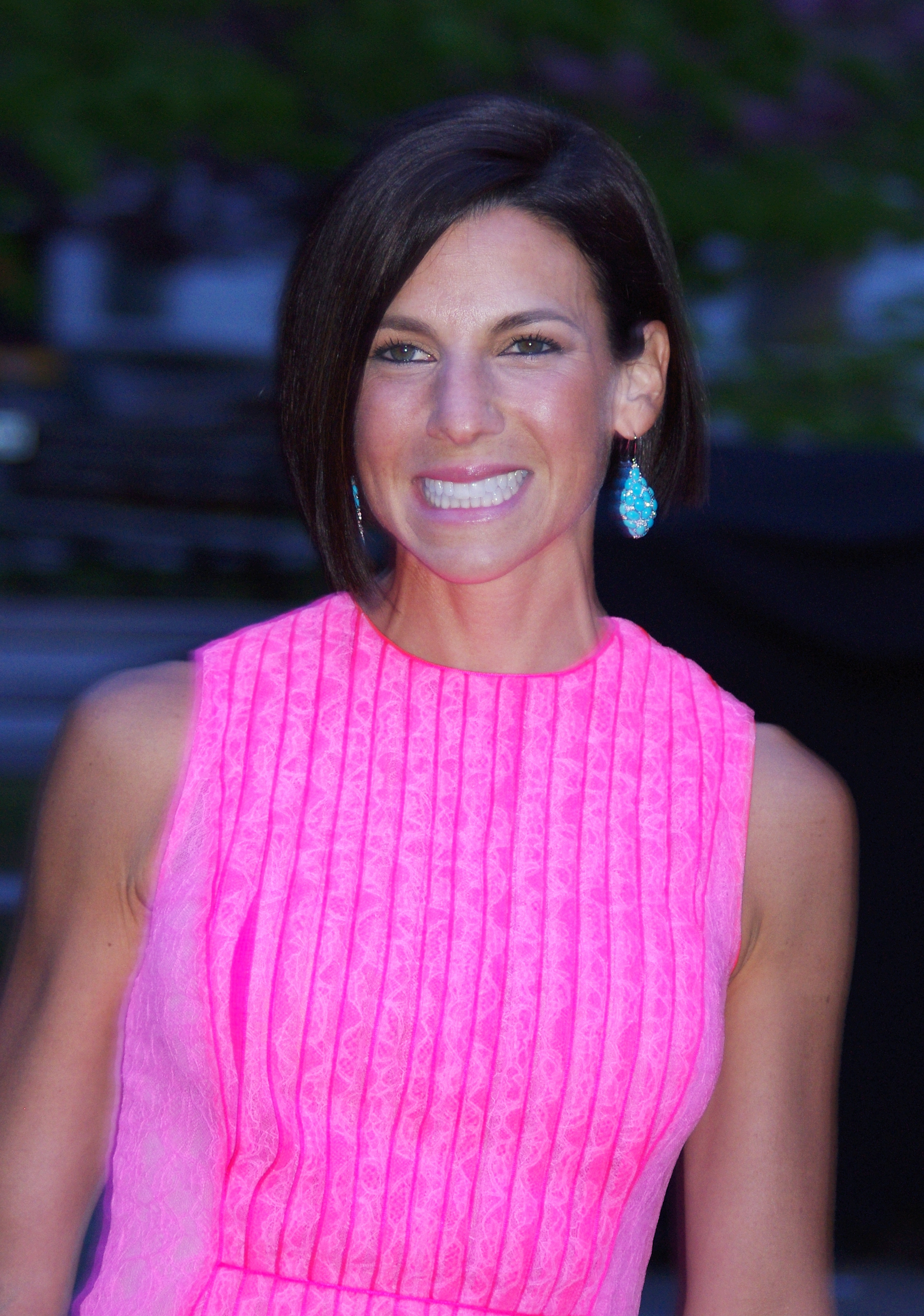 Jessica Seinfeld at the Vanity Fair party celebrating the 10th anniversary of the Tribeca Film Festival.